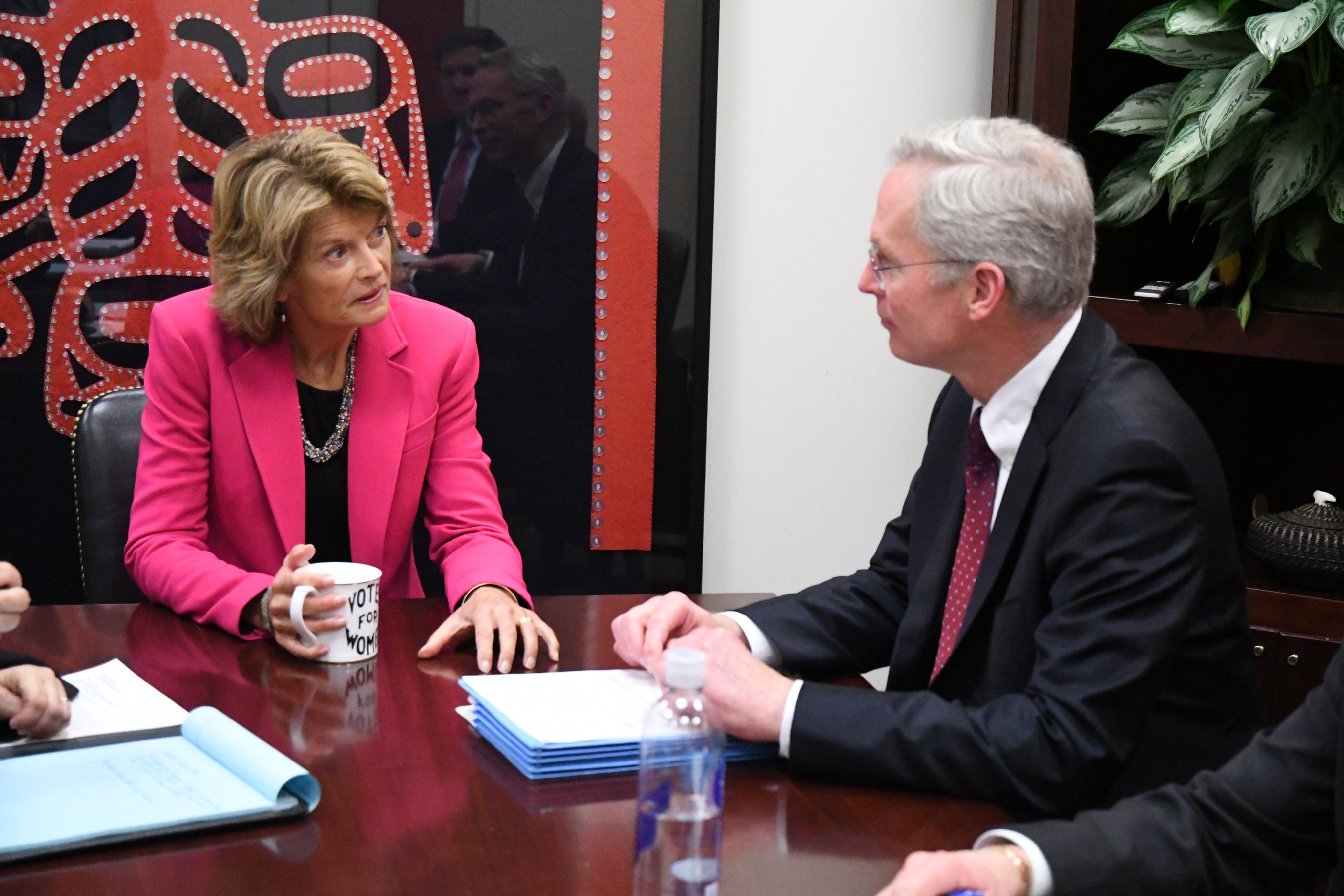 Glad to meet with UA President Jim Johnsen to discuss everything from the importance @ADACAlaska & programs such as @CCHRC to details surrounding the Ted Stevens Arctic Security Center, which would help the @DeptofDefense to strengthen our national security in the Arctic.